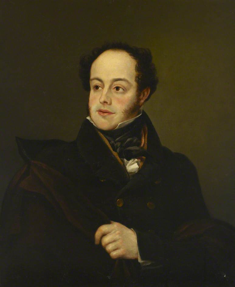 Depicted person: Nicolas Mori